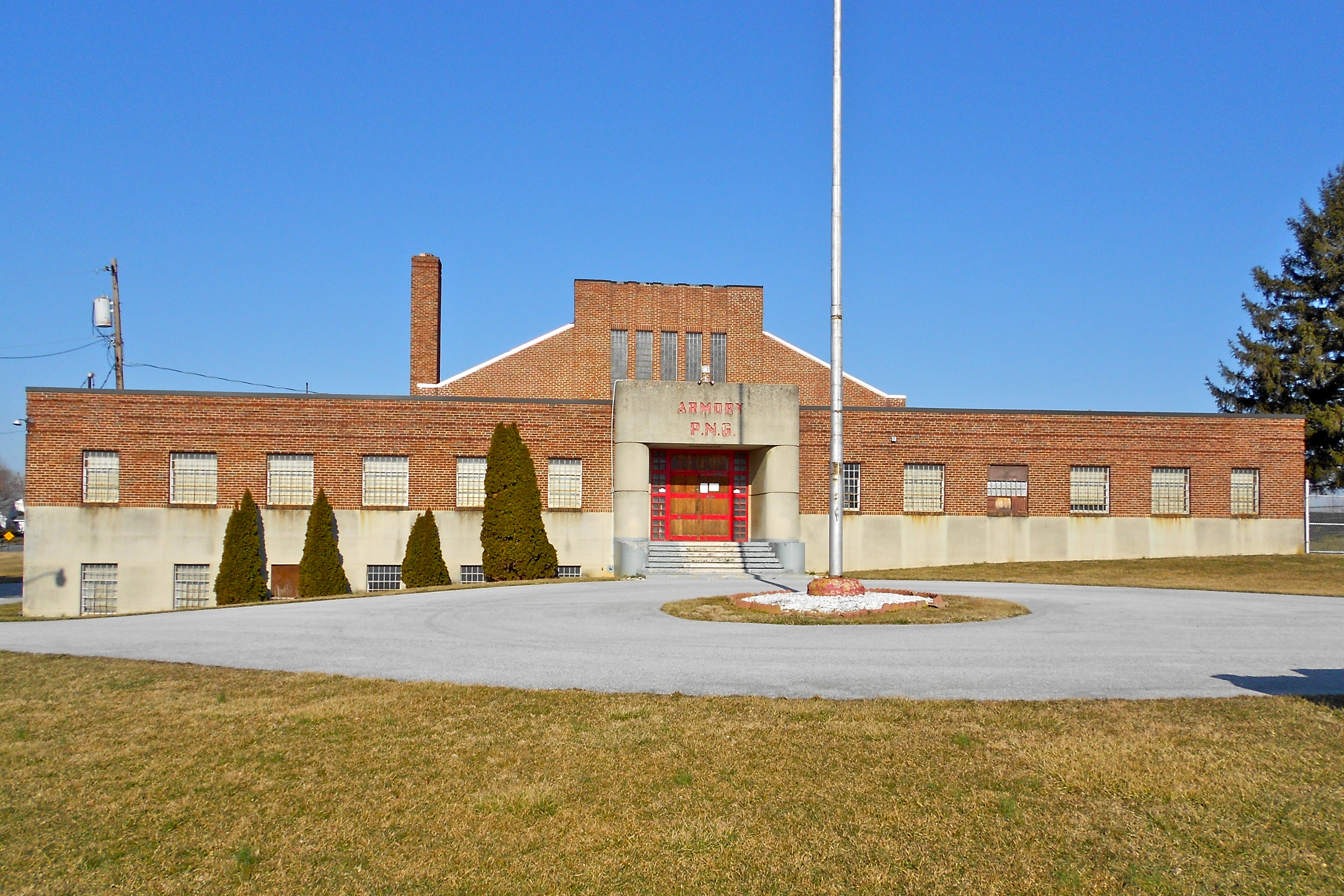 Waynesboro Armory on the NRHP since December 22, 1989. On North Grant Street just north of Waynesboro, across from the gas station, Washington Township, Franklin County, Pennsylvania.